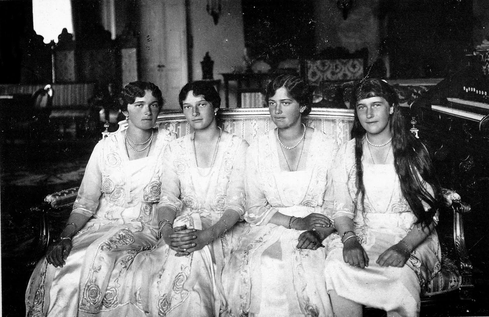 Pearls about their necks and bracelets on their wrists, the Tsar's daughters pose in evening gowns in one of the salons. The furniture is French. Family concerts would be held here. The organ behind the girls is stacked with well-thumbed sheet music. All the Tsar's daughters learnt to play the piano, with varying degrees of success. Tatiana was technically the best player. Both this and the following photograph come from Maria's album. This official portrait of Grand Duchesses Olga, Tatiana, Maria, and Anastasia Nikolaevna of Russia dates to 1915 or 1916. It is from It was also featured on postcards during World War I and has been published numerous times in books and articles. Because of its age, I think it's probably in the public domain. If I'm wrong, please delete the photo immediately.